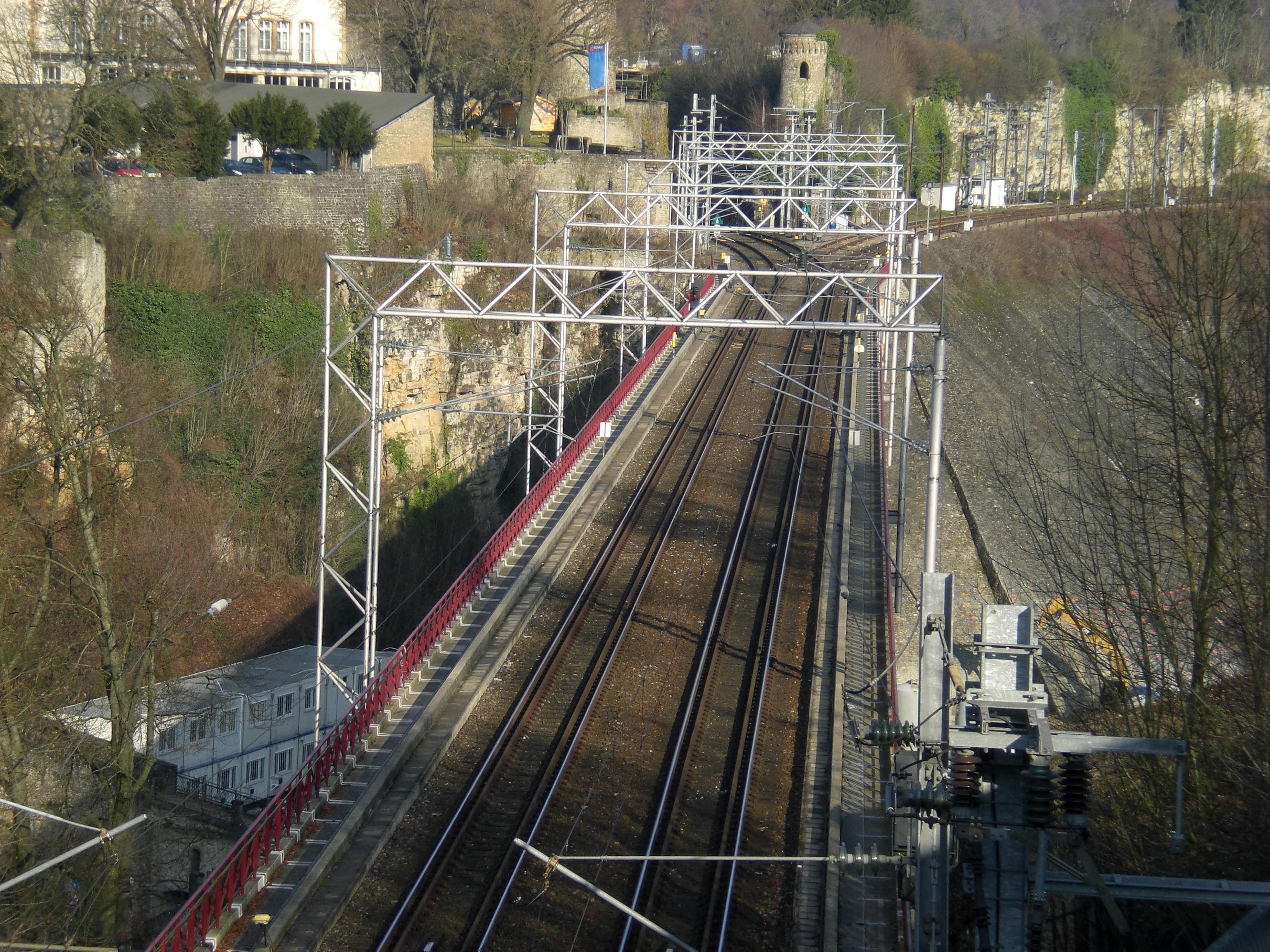 Railway viadukt Pulvermühle, Luxembourg